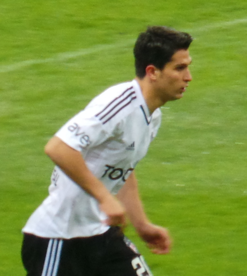 Necip against GS